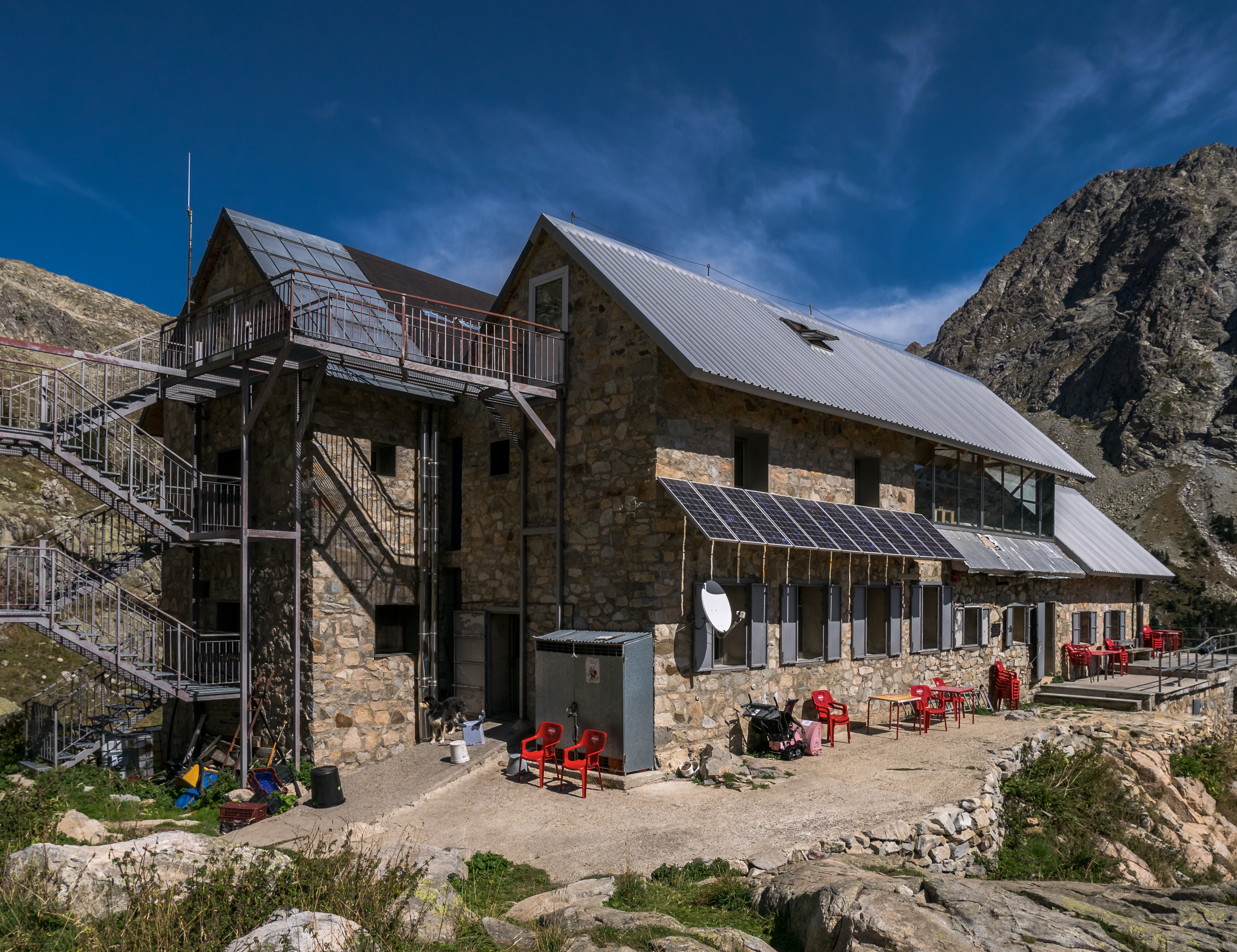 Ángel Orús mountain hut, Eriste gorge. Sahún, Ribagorza, Huesca, Aragon, Spain